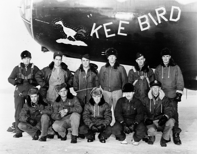 Photo of the crew of the B-29 "Kee Bird"; crashed in Greenland in February 1947.